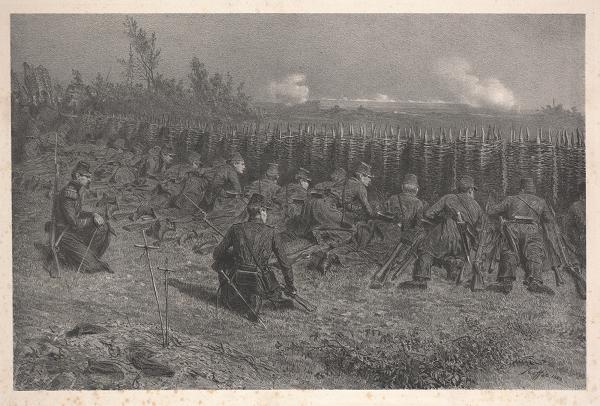 Lithograph: Sape Volante, by Denis-Auguste-Marie Raffet. Current location: Dallas Museum of Art